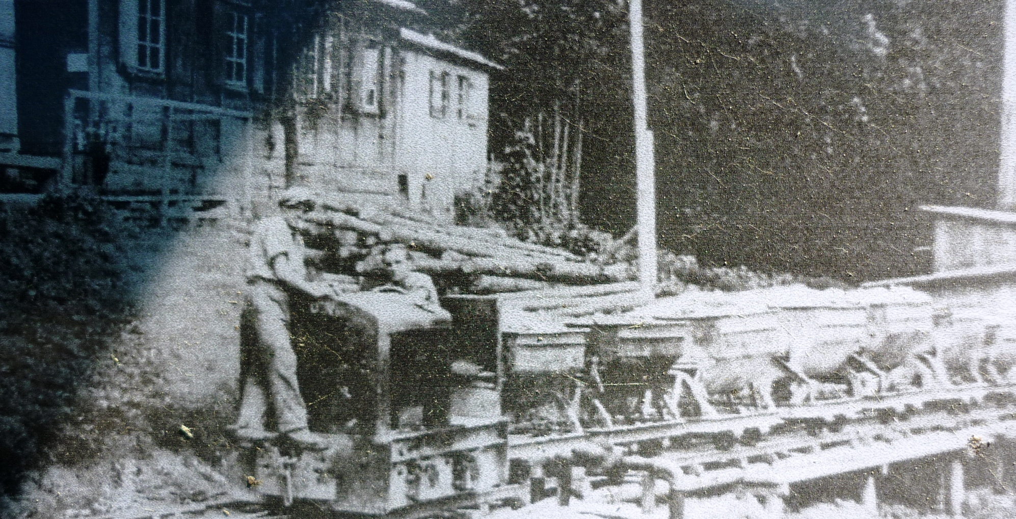 Riedhof coal mine, Aeugstertal ZH, Switzerland Bergwerk Riedhof, Aeugstertal ZH, Schweiz